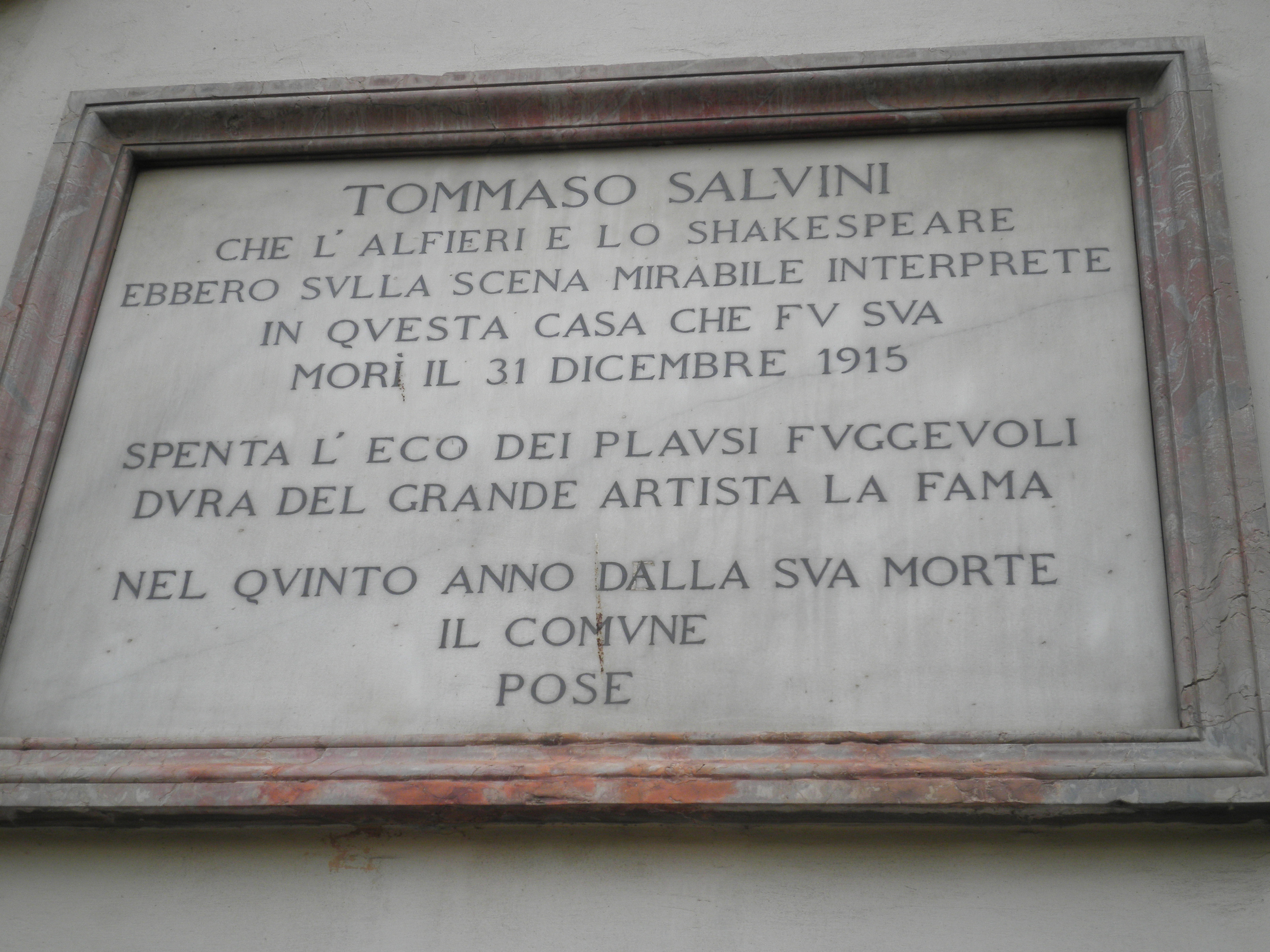 Commemorative plaque Salvini's home "Via Gino Capponi", 25 Florence.